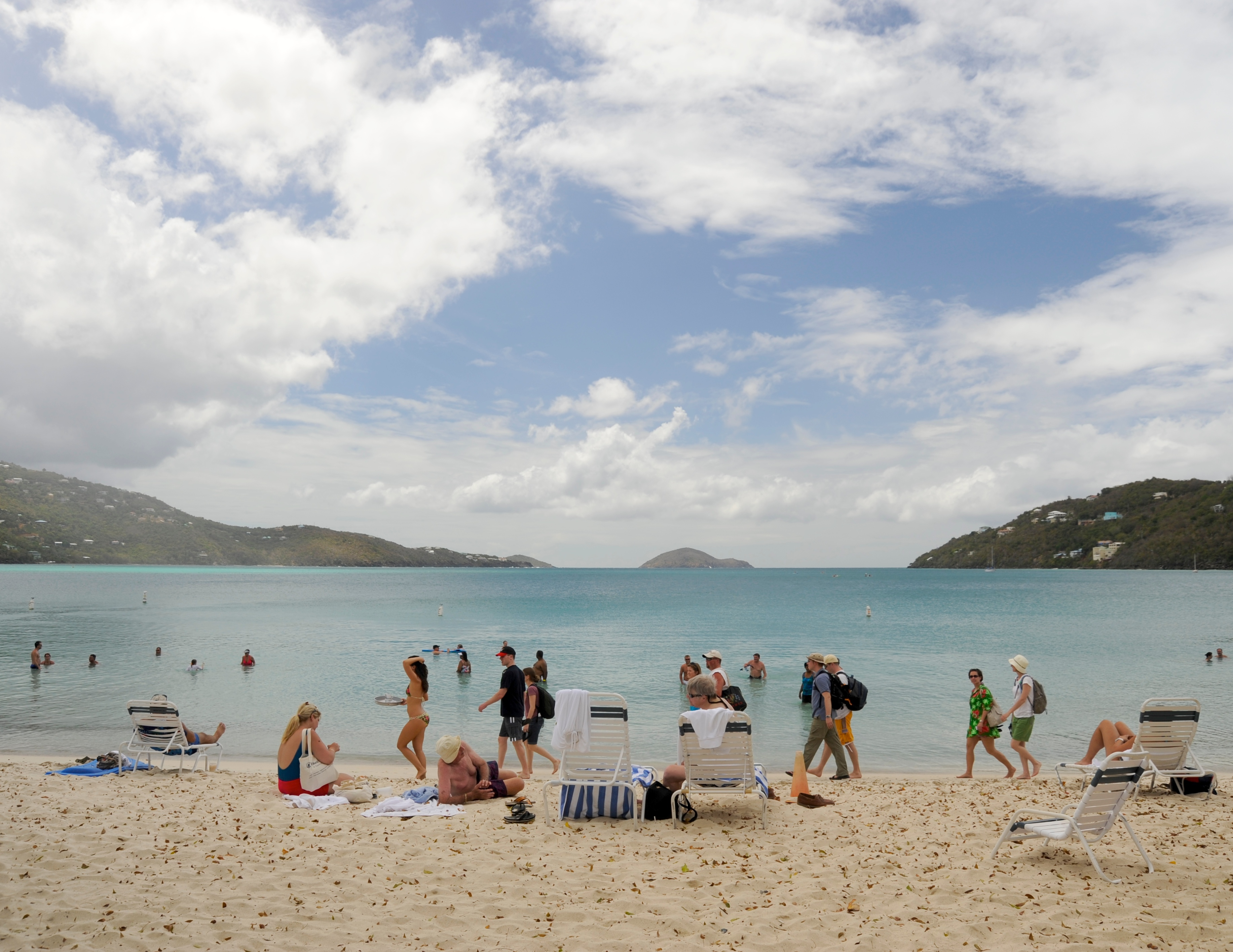 Magens Bay at St. Thomas